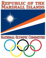 Official logo of the Republic of the Marshall Islands National Olympic Committee. Posted on front page of U.S. Office of Insular Affairs website